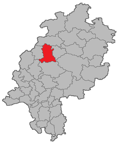 Map of the district court Marburg in Hesse